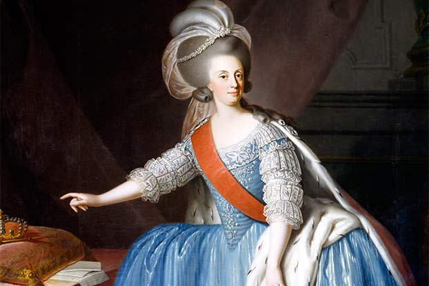 Maria I, queen of Portugal